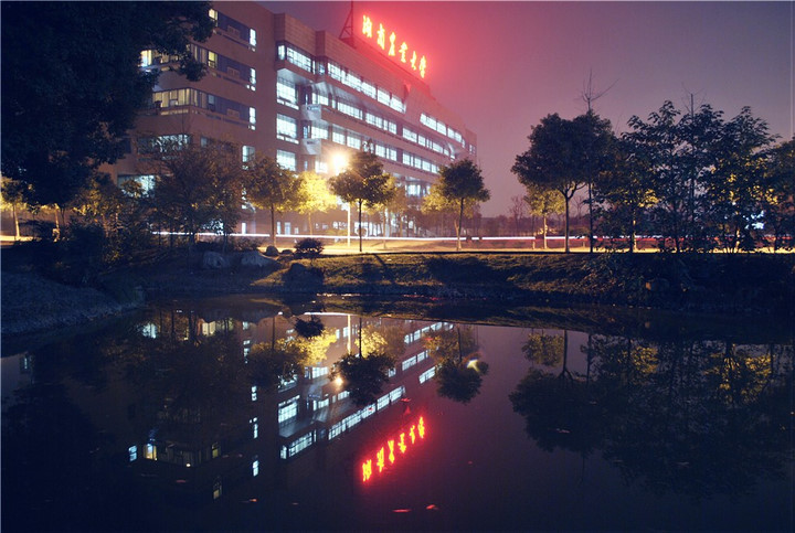 Hunan Agricultural University, or HUNAU, is a key provincial university of Hunan located in the Furong District of Changsha.